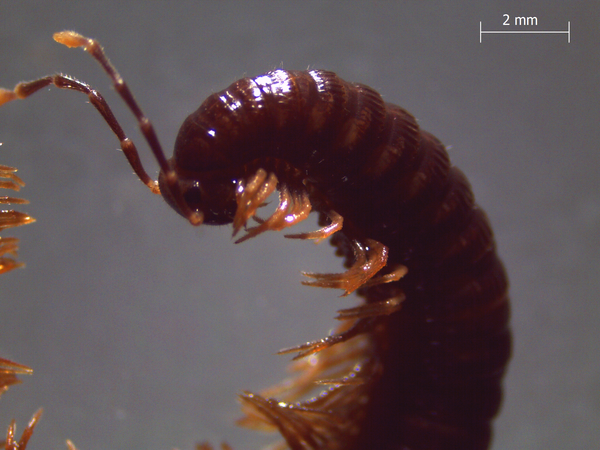 Apfelbeckia insculpta from W Serbia. Српски (ћирилица): Apfelbeckia insculpta из околине Ваљева (З Србија).